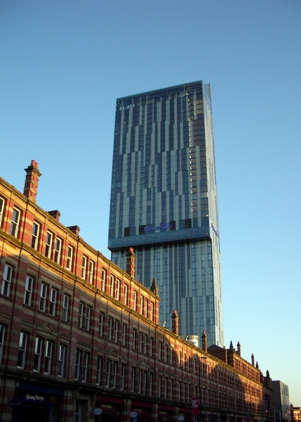 An image of the Beetham Tower in Manchester with a line of Deansgate stores in the foreground.